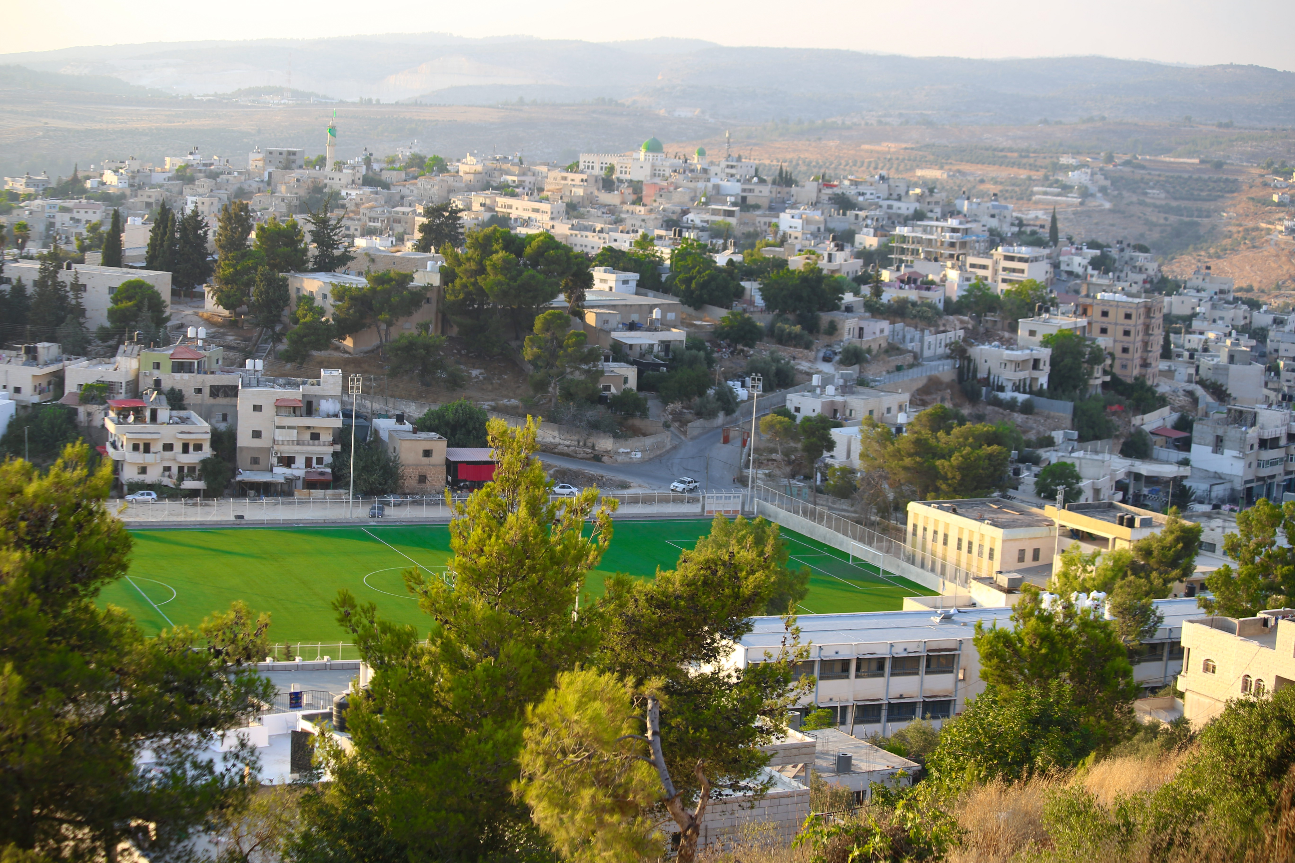 Surif Stadium